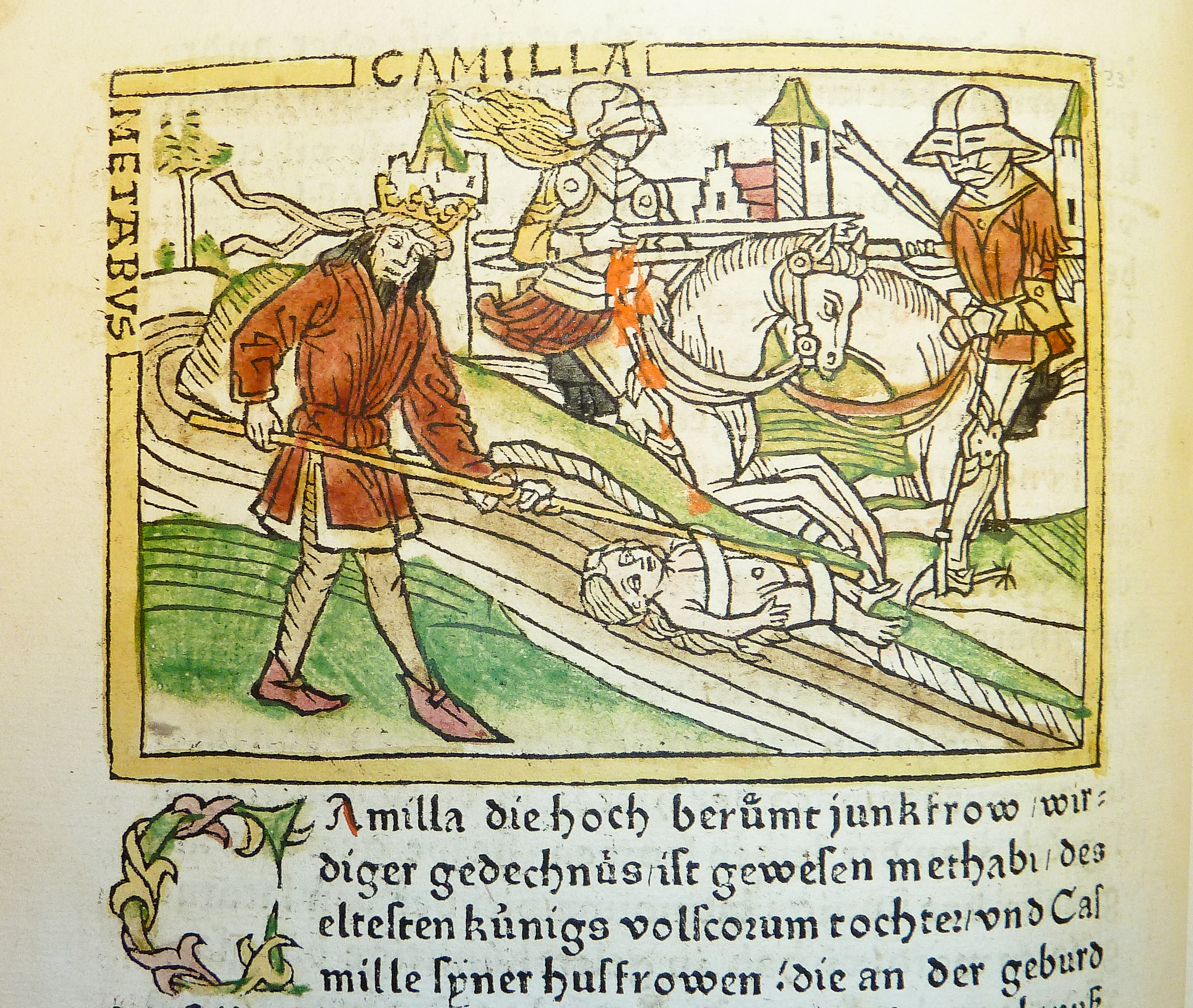 Woodcut illustration (leaf [g]2v, f. lij) of Camilla and Metabus escaping into exile, hand-colored in red, green, yellow and black, from an incunable German translation by Heinrich Steinhöwel of Giovanni Boccaccio's De mulieribus claris, printed by Johannes Zainer at Ulm ca. 1474 (cf. ISTC ib00720000). One of 76 woodcut illustrations (1 on leaf [e]8v dated 1473), each 80 x 110 mm., depicting scenes from the life of the women chronicled (for a full list of subjects, cf. W.L. Schreiber, Handbuch der Holz- und Metallschnitte des XV. Jahrhunderts (Nendeln: Kraus Reprints, 1969), no. 3506). "Pour la première moitie le nom se trouve inscrit à côte de la tête de chaque femme, pour le reste il es ajouté entre les deux réglettes. Il n'y en a que trois, qui n'ont qu'un seul trait carré."--Schreiber. Established form: Zainer, Johannes, ‡d d. 1541?. Established form: Camilla (Roman mythology) Penn Libraries call number: Inc B-720 All images from this book Penn Libraries catalog record